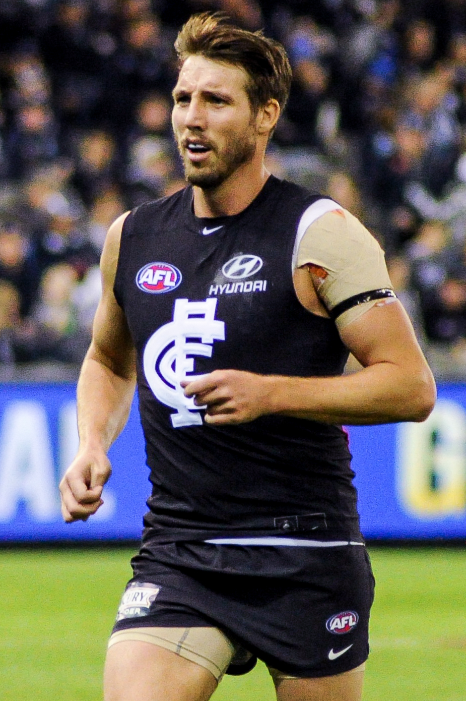 Dale Thomas during the AFL round twelve match between Carlton and Greater Western Sydney on 11 June 2017 at Etihad Stadium in Melbourne, Victoria.